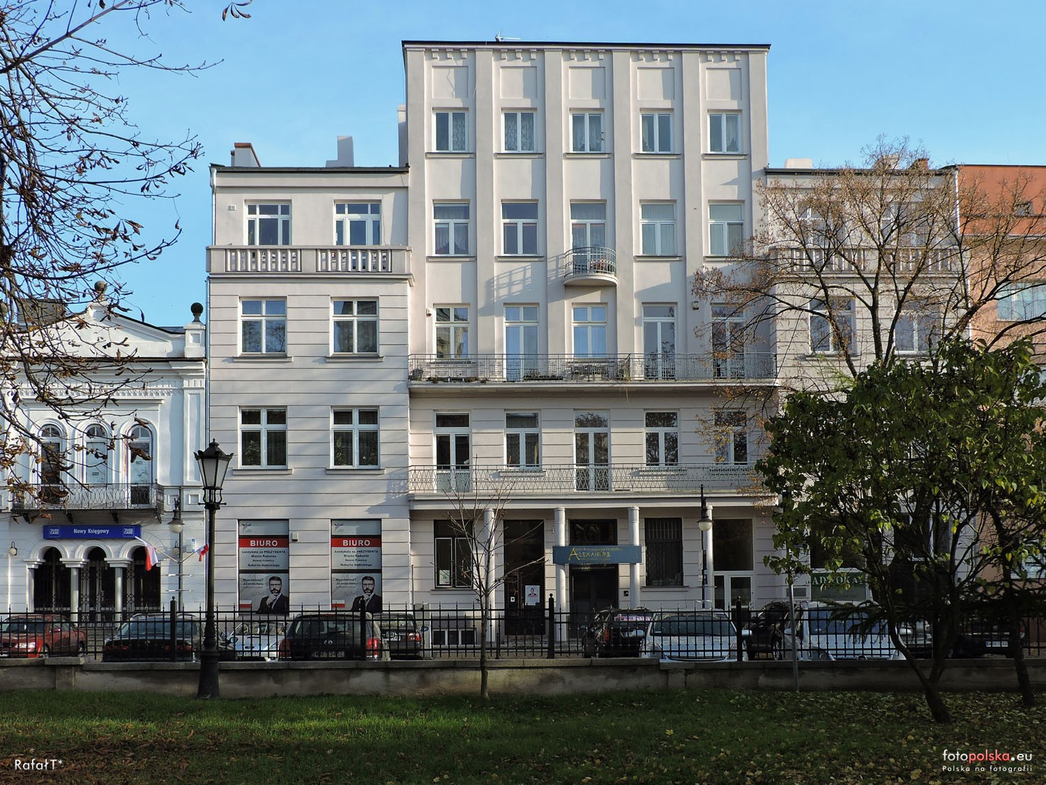 Building of former Hotel "Marlene", Konstytucji 3 Maja Sq 3, Radom, Poland